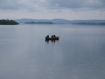 Fishermen on Lough Corrib, Ireland. From boat tour from Ashford Castle.